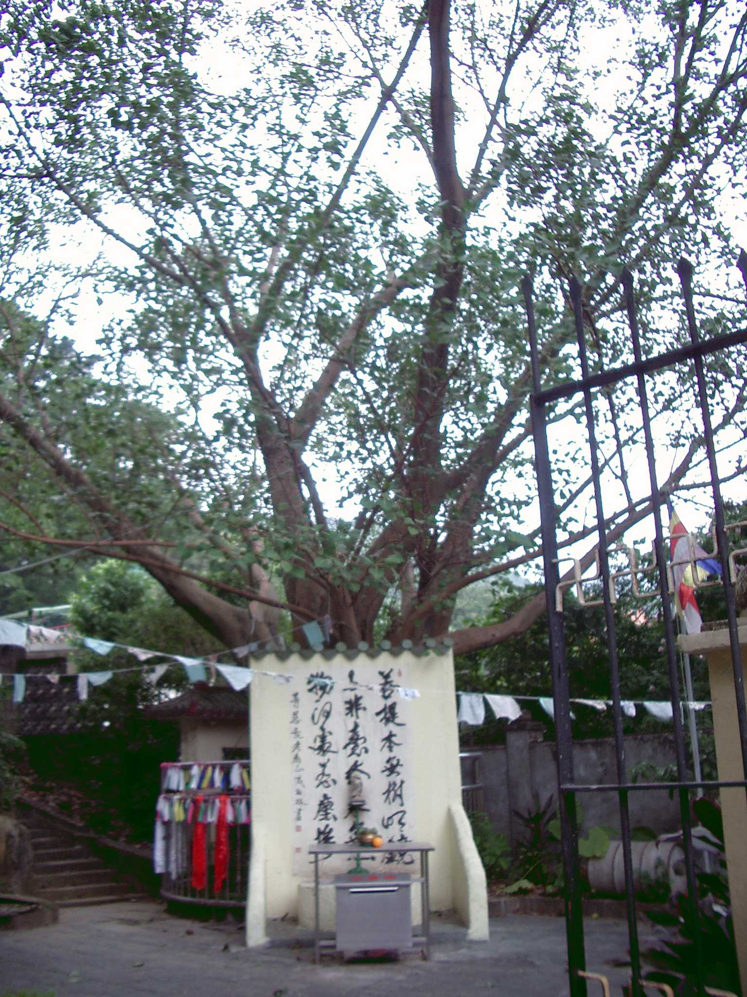 Bodhi Tree of Nam Tin Chuk Temple, Fu Yung Shan, Tsuen Wan, Hong Kong